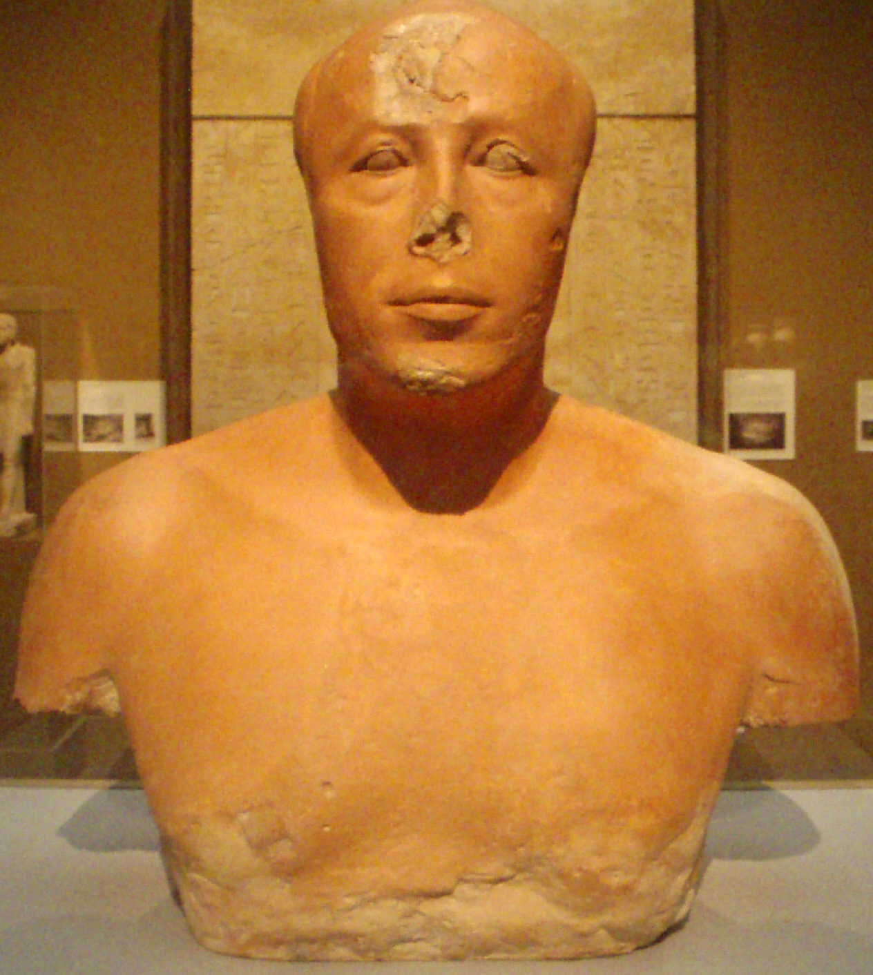 Bust of Prince Ankhhaf, from Giza, tomb G 7310. From the 4th dynasty, during the reign of Khafra, circa 2575-2550 B.C. Painted limestone. Now residing in the Museum of Fine Arts, Boston. Museum Expedition 27.442